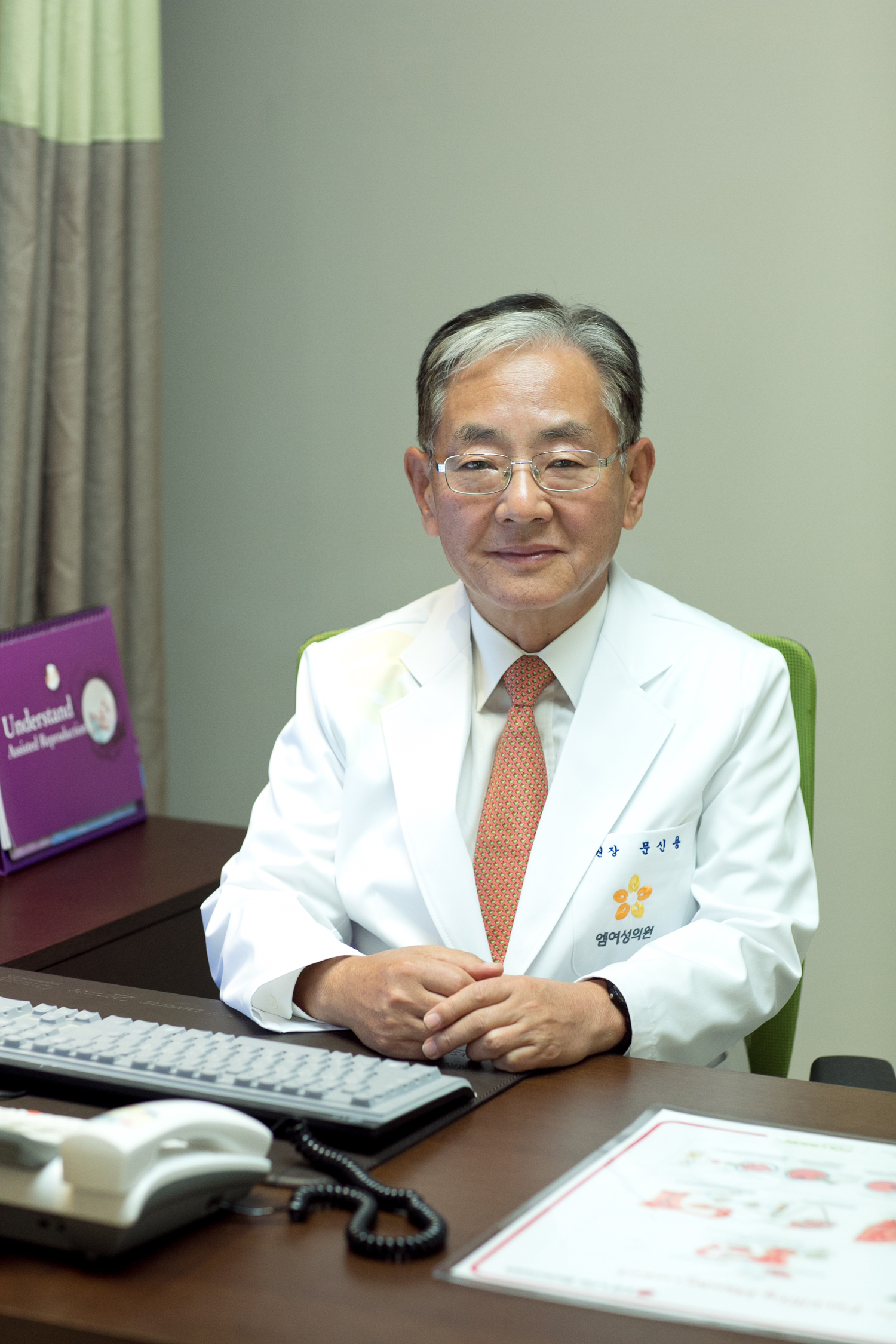 Korean Doctor